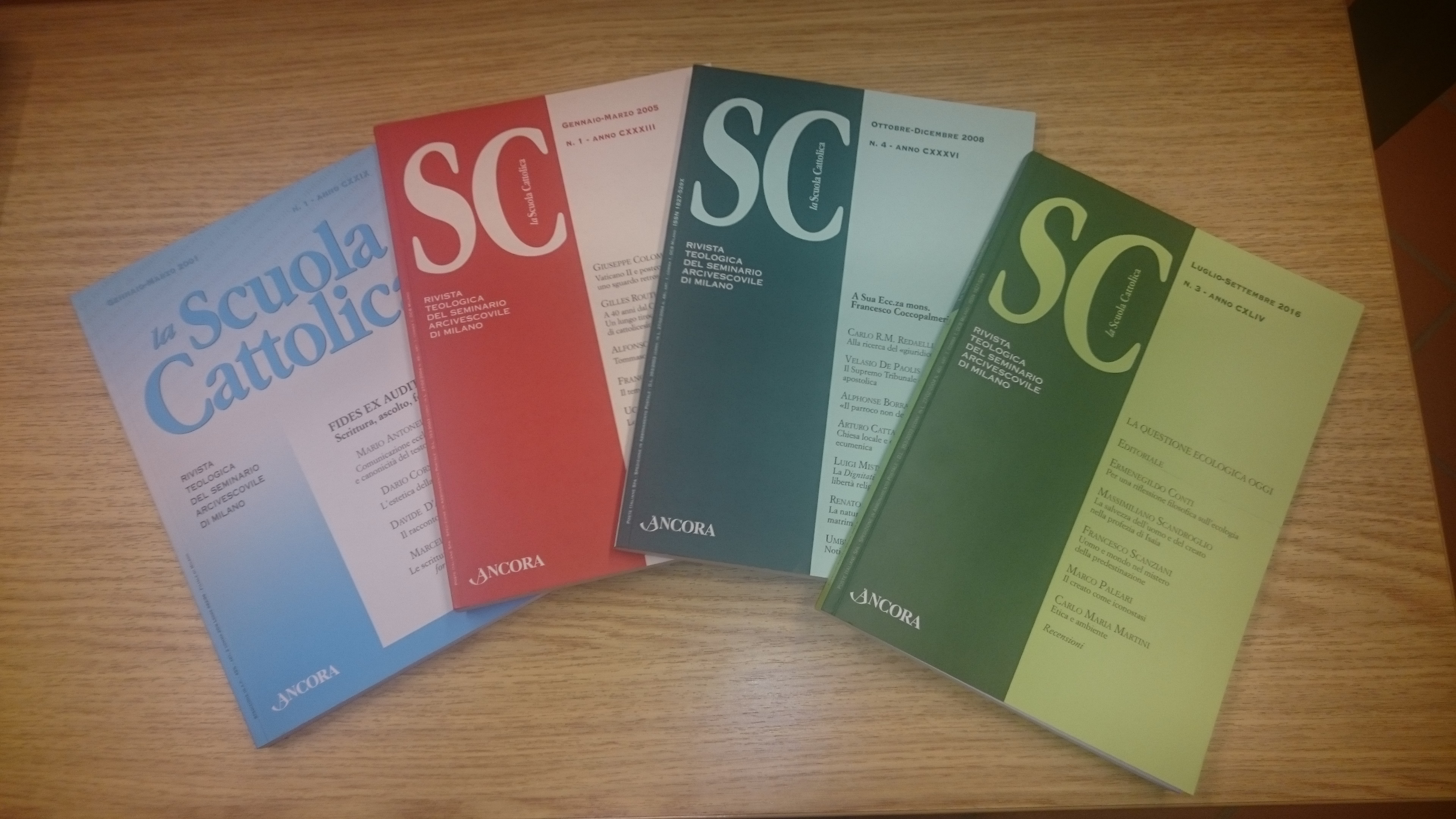 Some covers of the Academic Journal "La Scuola Cattolica", published by the Archiepiscopal Seminary of Milan since 1873.